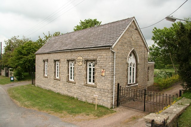 Northorpe National School. Now the parish room, the National School has a datestone of 1846.